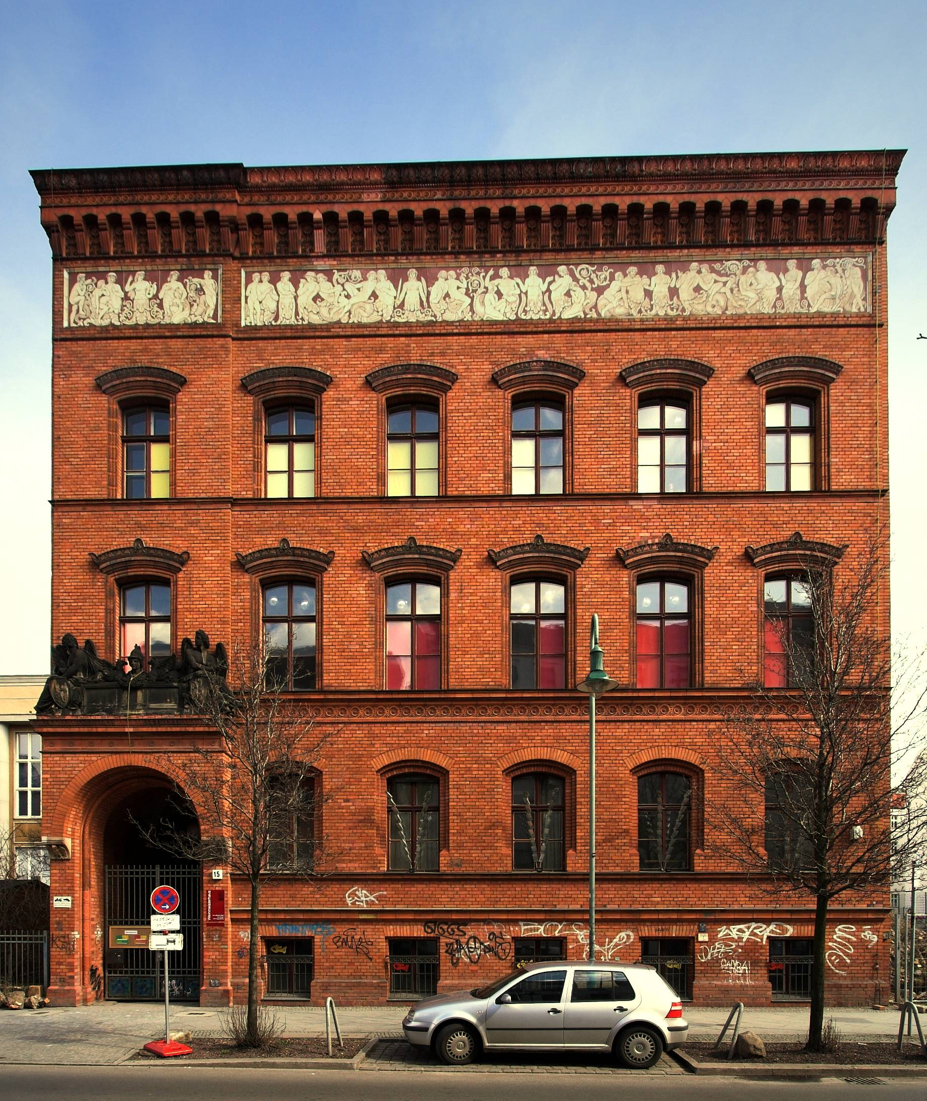 Berlin - former directorate building of Sophien-Gymnasium, designed by Adolf Gerstenberg